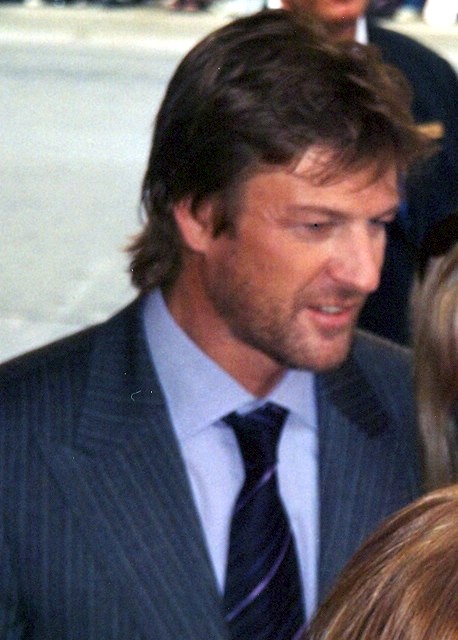 Sean Bean at the premiere of North Country at the 2005 Toronto International Film Festival.